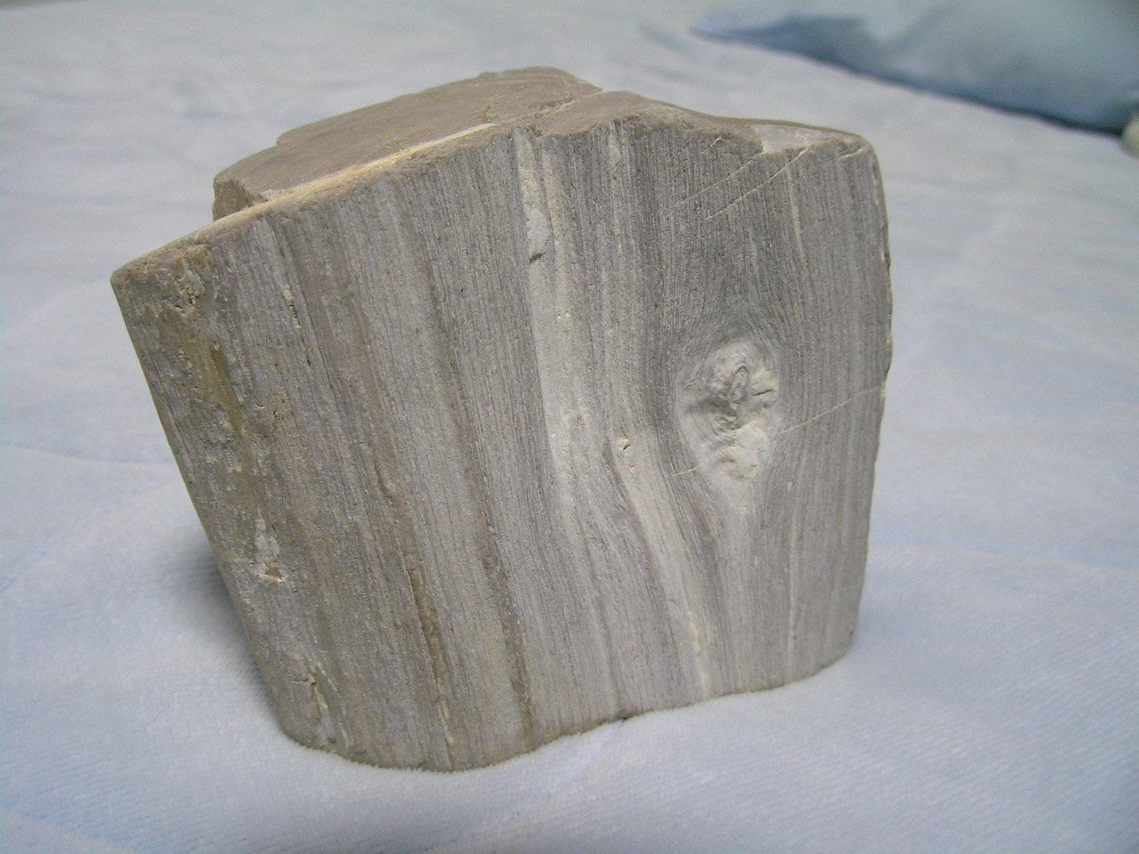 Petrified wood that was discovered in Sanda City, the high school student living in Nishi Ward, Kobe, Japan